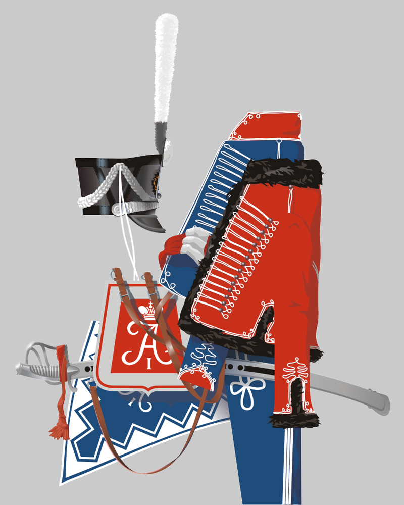 Trooper of White Russia (Belorussia) Hussar regiment’s full dress: dolman, pelisse, barrel sash, breeches, shako (here of 1812), shabraque, sabretache & sabre. Russian army of 1812